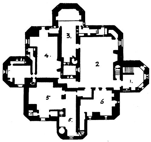 Summary A plan of the keep of Warkworth Castle from The Growth of the English House by J Alfred Gotch (1909). Image taken from . Key: 1. Vestibule (leading from entrance in basement) 2. Hall 3. Chapel 4. Great chamber 5. Kitchens 6. Pantry and buttery 18:14, 16 October 2005 Piccadilly 500x471 (26601 bytes) (A plan of the keep of :en:Warkworth Castle from The Growth of the English House by J Alfred Gotch (1909). )